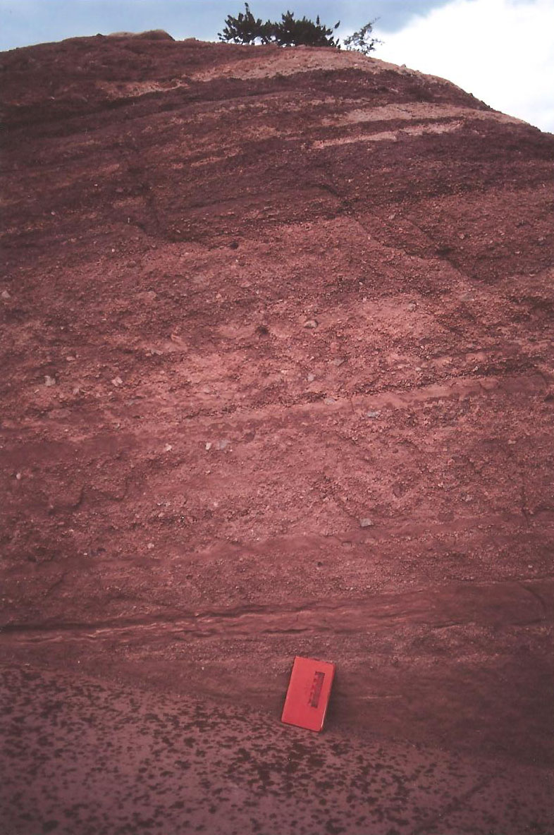 Outcrop of the Pennsylvanian Fountain Formation at Garden of the Gods, Colorado. Taken 2003. Scale bar on notebook is 10 cm.